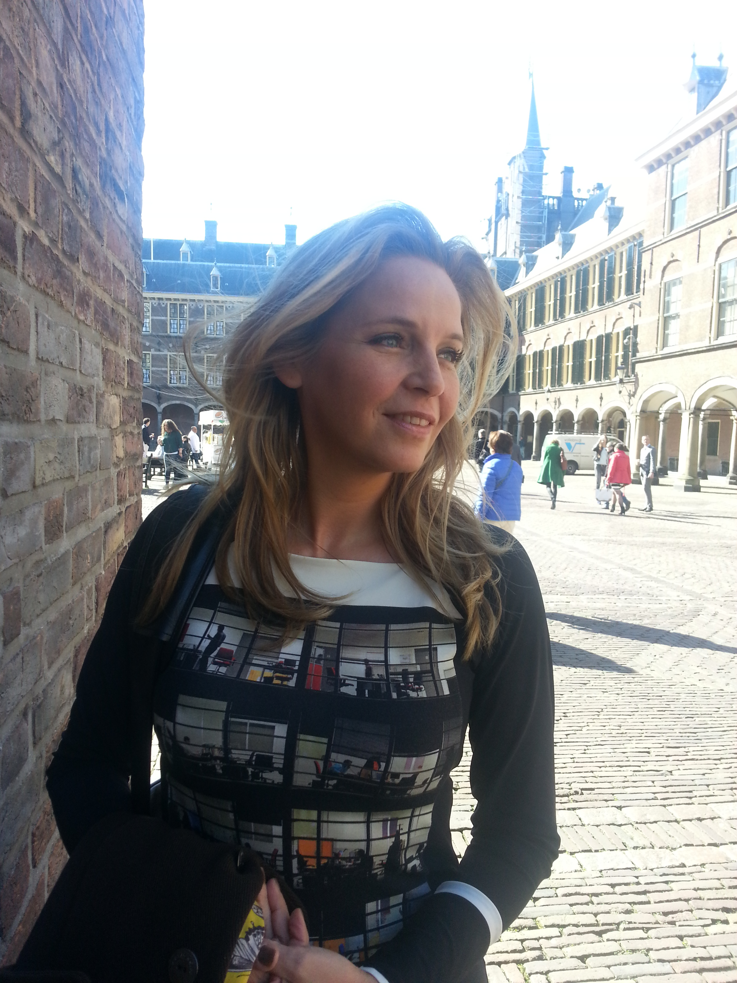 Dutch author Esther Verhoef at the Binnenhof, Den Haag